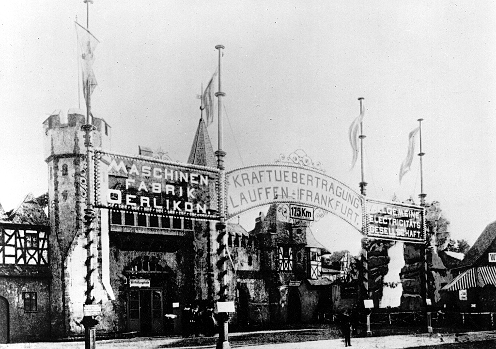 25 August 1891. The entrance to the International Electrotechnical Exhibition in Frankfurt am Main. Equipped with 1000 lightbulbs, the exhibition had its power supplied over a 175 km transmission line from Lauffen am Neckar. This was a first ever long-distance, high-power transmission of three phase power. In the background, an artificial waterfall can be seen.